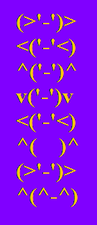 Kirby dancing using kaomojis